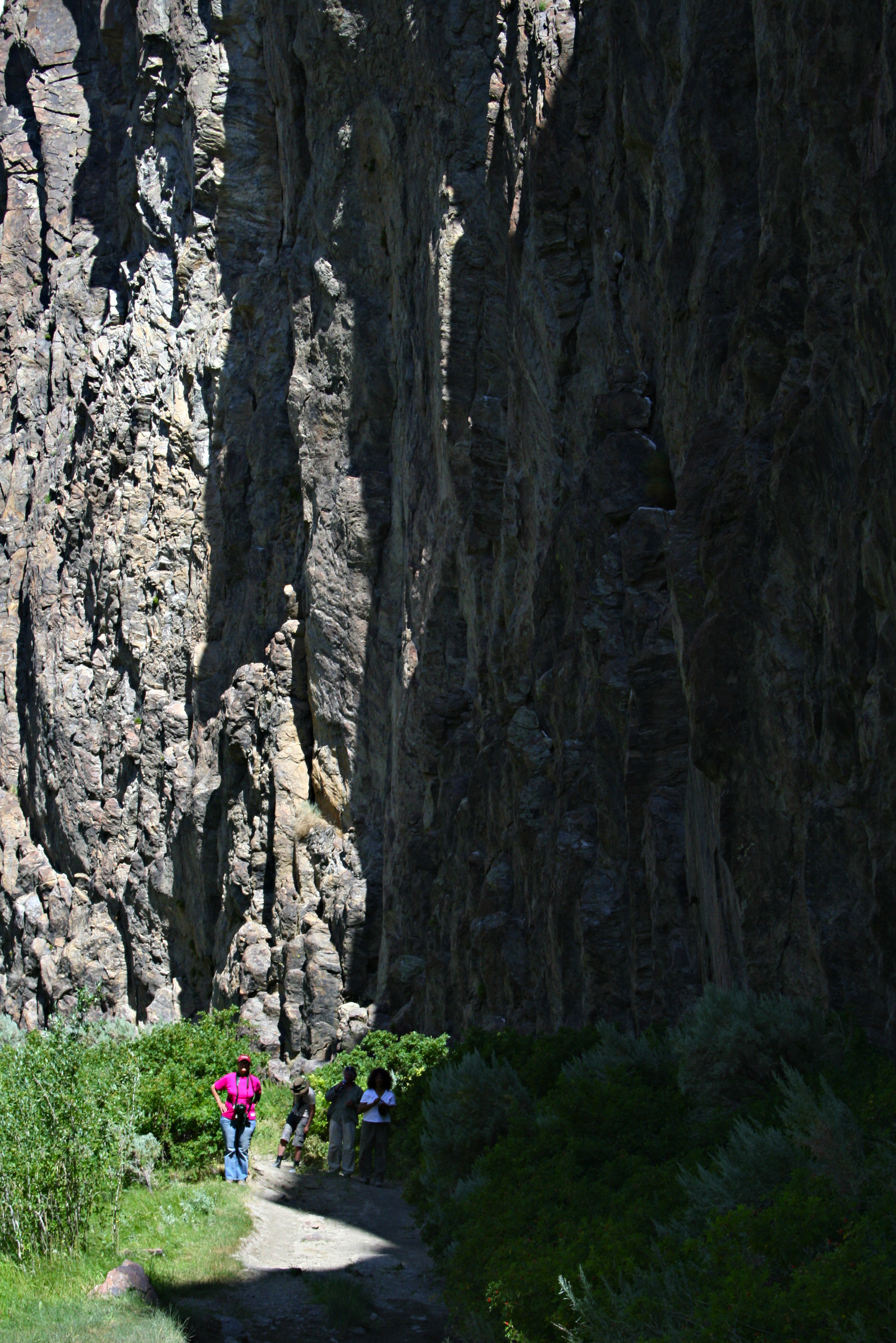 Four hikers walk through the narrow walls of the High Rock Canyon in the Black Rock Desert, a remote part of the Nevada backcountry. They are following the California Trail.